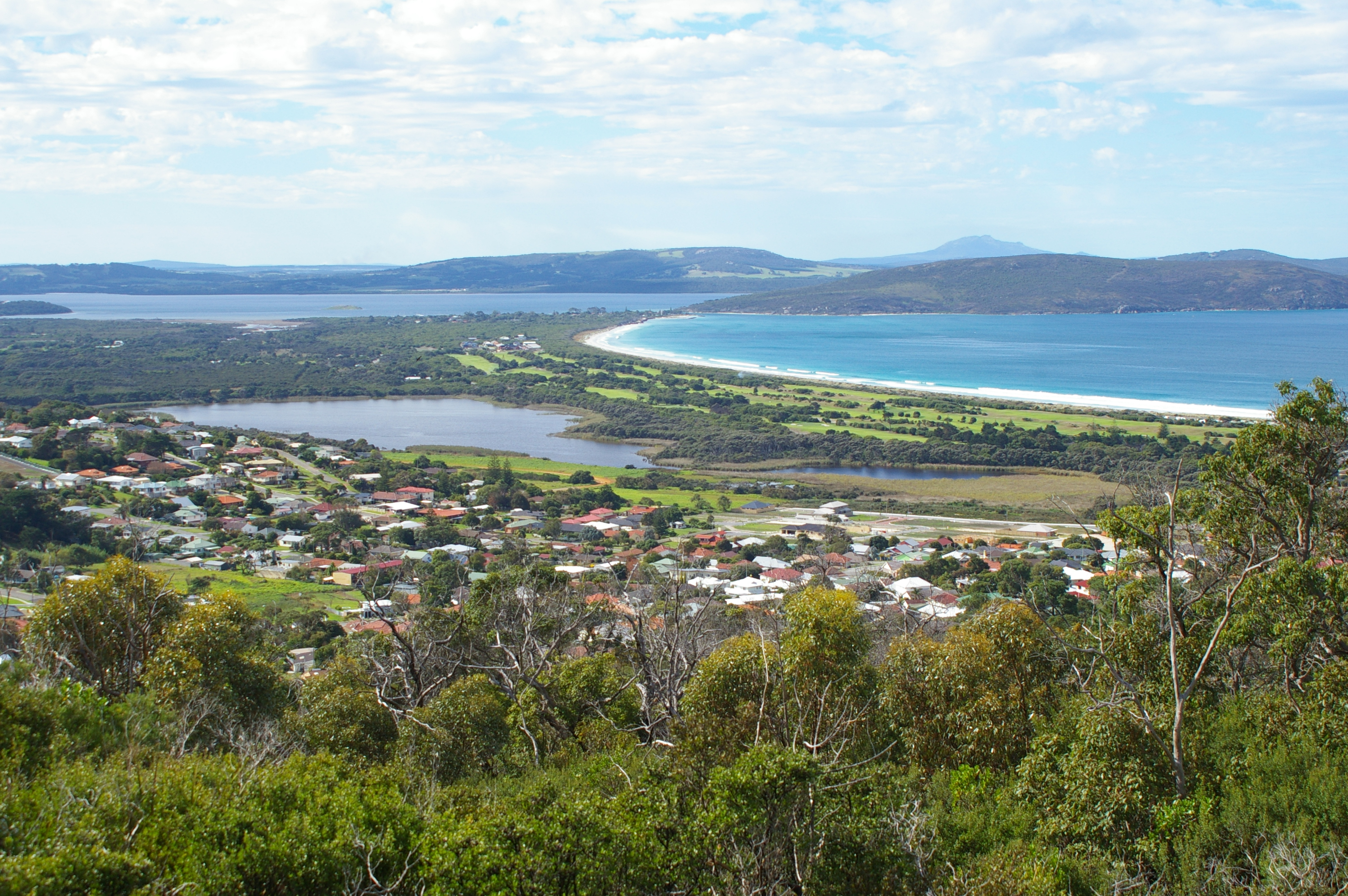 Photo of Lake Seppings taken from Mt Clarence in Albany Western Australiaby myself April 2008